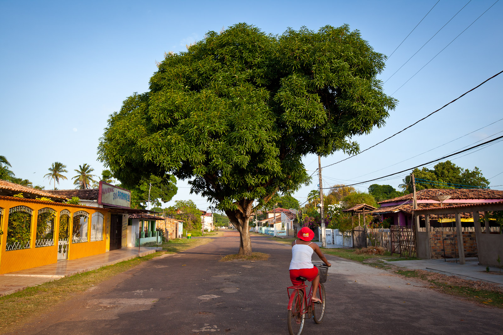 SALVATERRA, PA, BRASIL, 15-10-2013: Mangueira preservada no meio de rua em Salvaterra, Ilha do Marajó (PA). Foto: Zé Carlos Barretta.